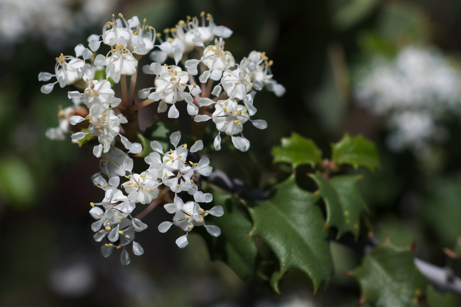 Species from California Photographed along Brim Road, Colusa County